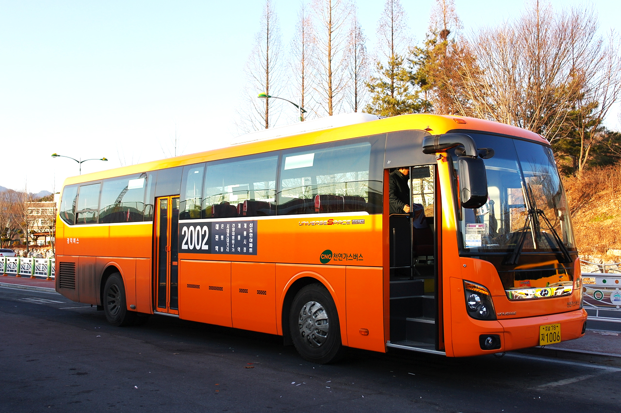 Hyundai Motors UniverseSpace Elegance